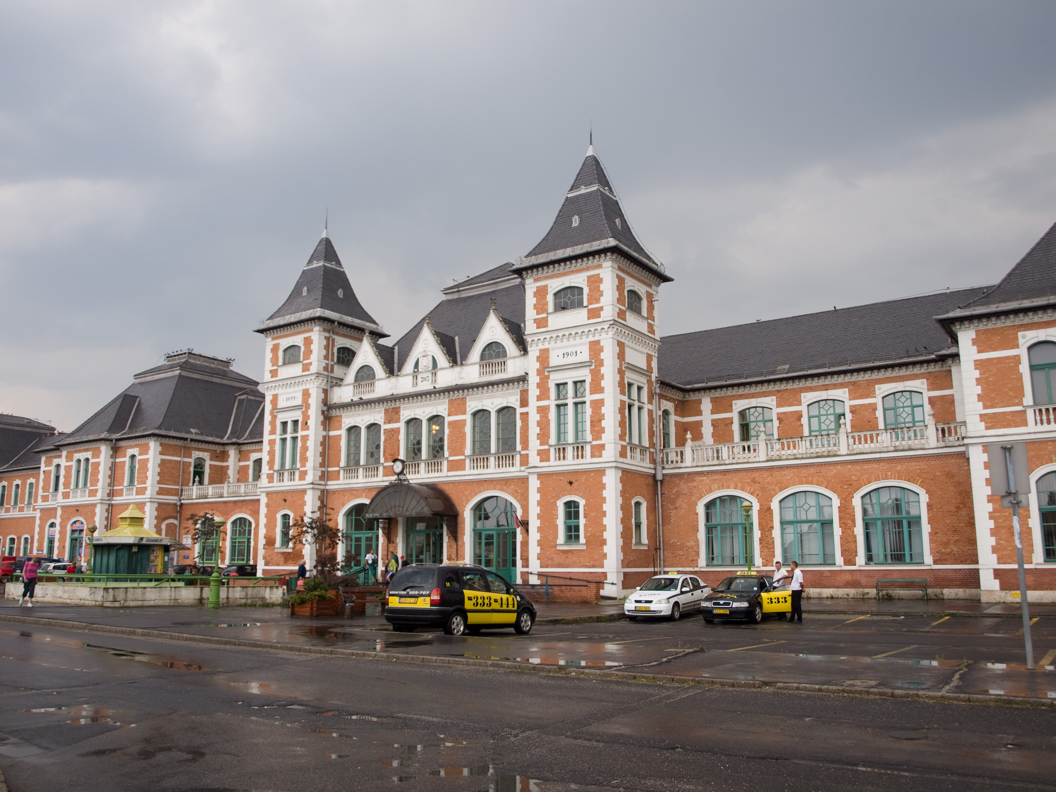 Tiszai train station, Miskolc